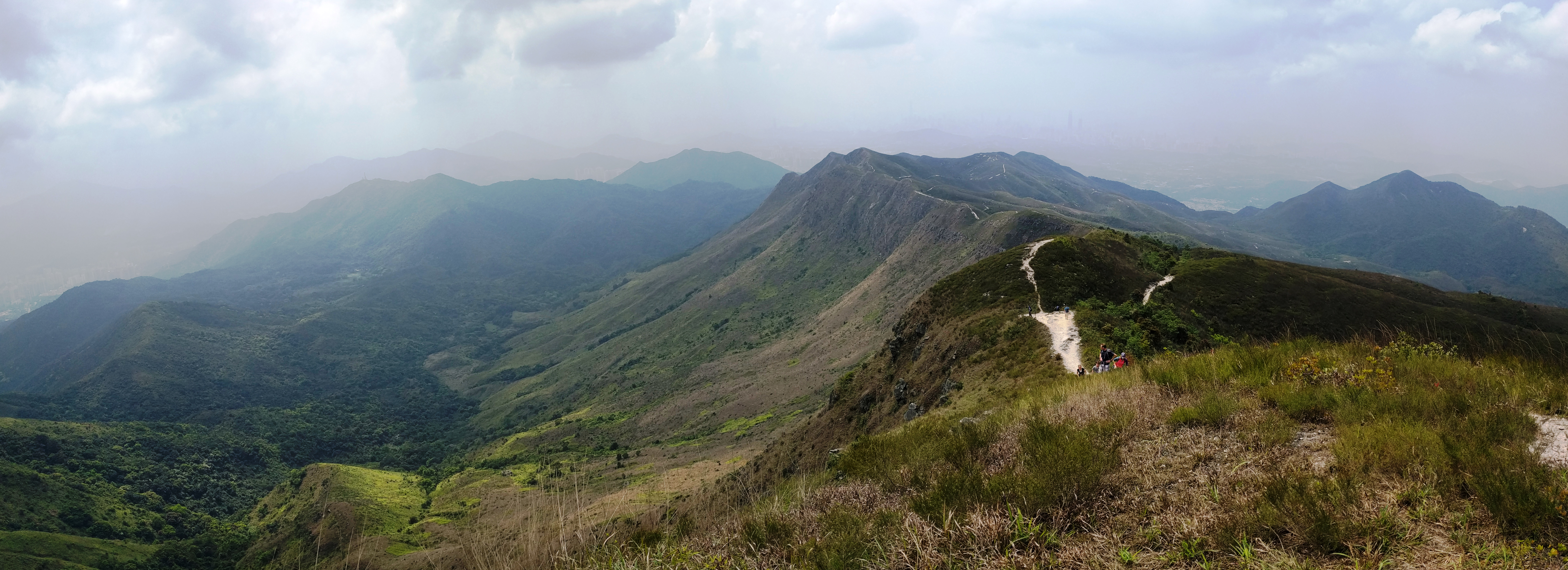 Wong Leng of Hong Kong, in Pat Sin Leng country park 中文（香港）: 黃嶺，位於八仙嶺效野公園範圍內